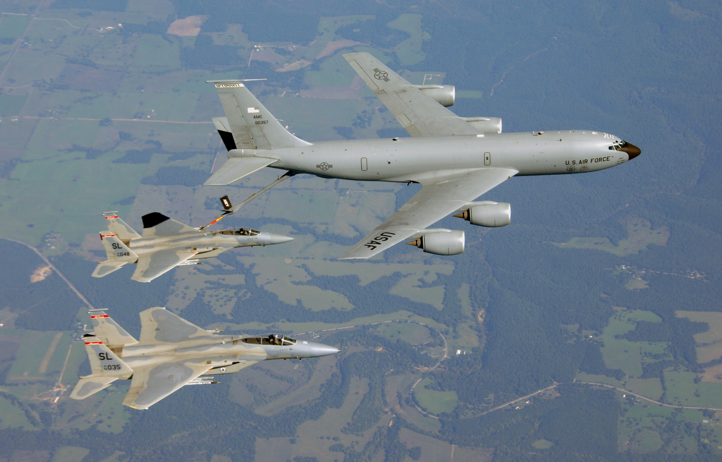 Two U.S. Air Force McDonnell Douglas F-15C Eagle fighters from the 110th Fighter Squadron, 131st Fighter Wing, Missouri Air National Guard (pilots: Lt. Col. Steve "Daihatsu" Dasuta, Lt. Col. Brian "Spiderman" Kamp) take on fuel from a Boeing KC-135R Stratotanker from the 22nd Air Rrefueling Wing, McConnell Air Force Base, Kansas (USA), on 25 September 2008. The pilots were participating in a training mission over Missouri.